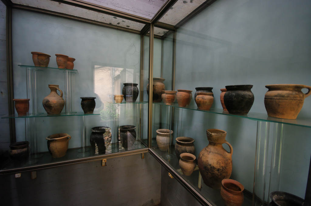 Pottery artifacts on display inside the Synagogue of Sopron, Hungary